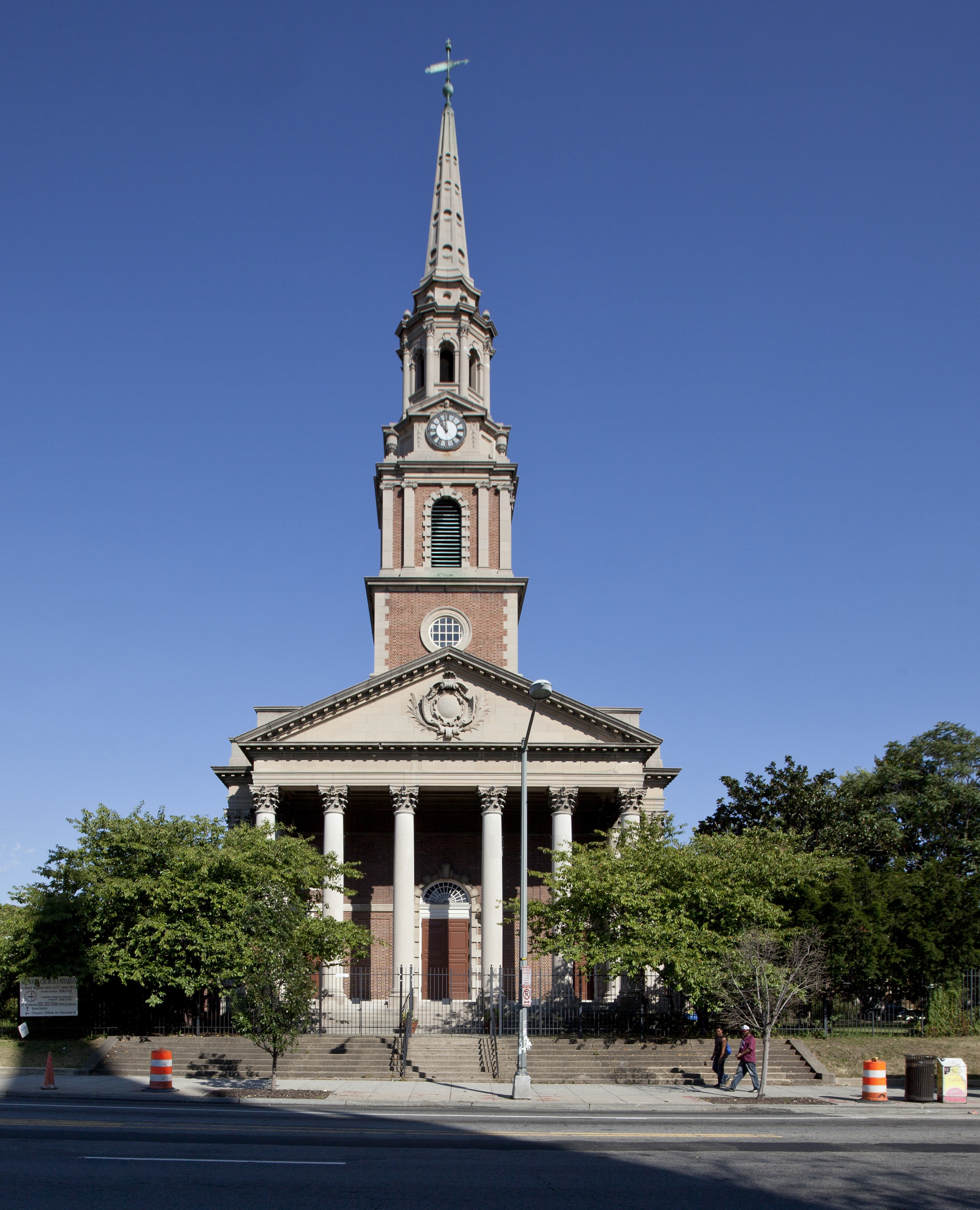 Street front of All Souls Church in DC, a Unitarian Universalist congregation